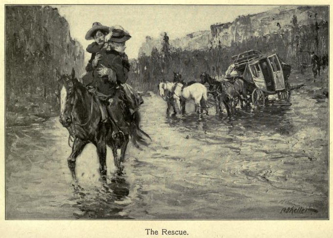 An illustration to the novel The Virginian by Owen Wister (1902).